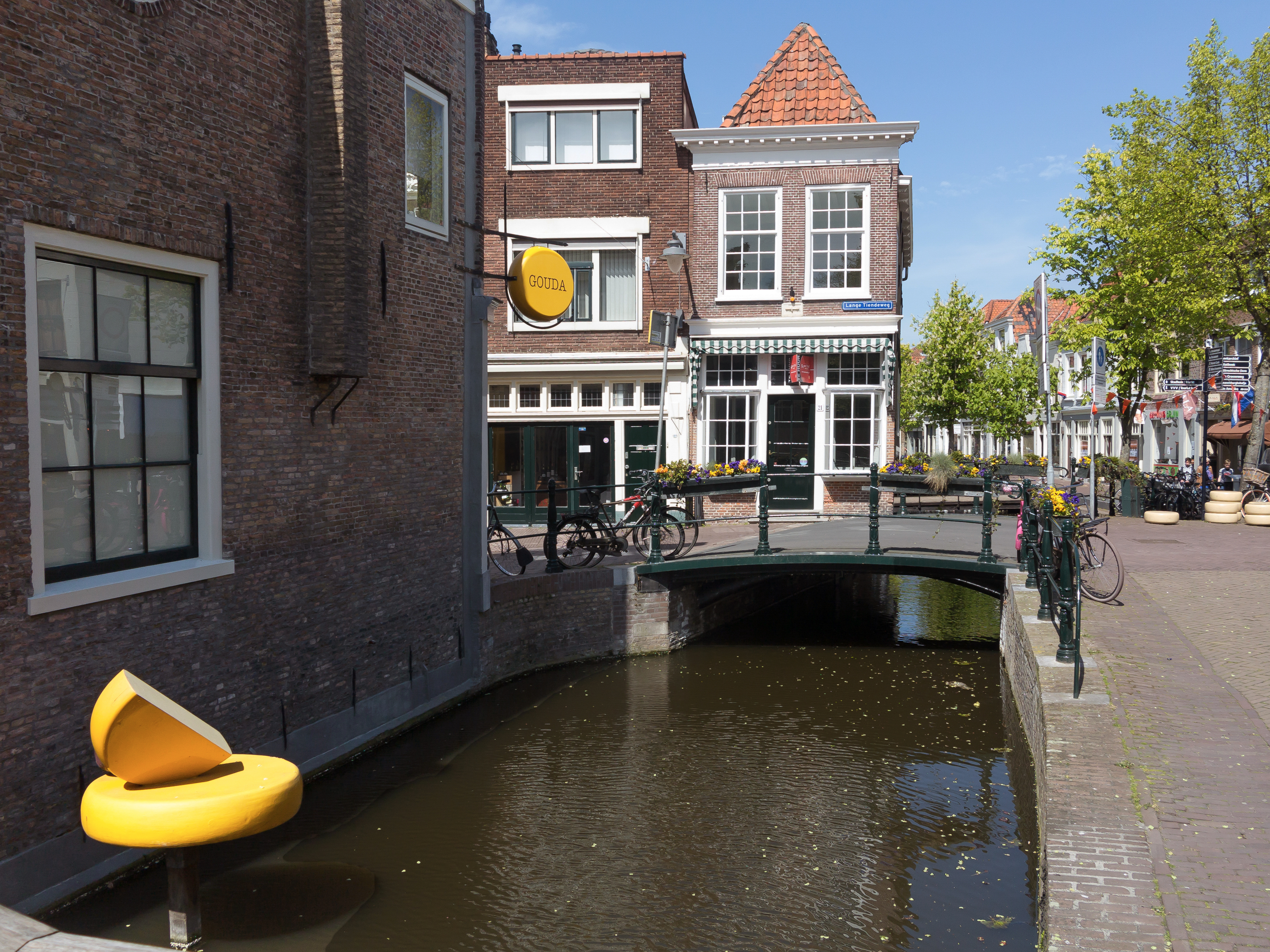 Gouda, street view (the Lange Tiendeweg) with cheese shop and monumental house ('t Grendeltje)